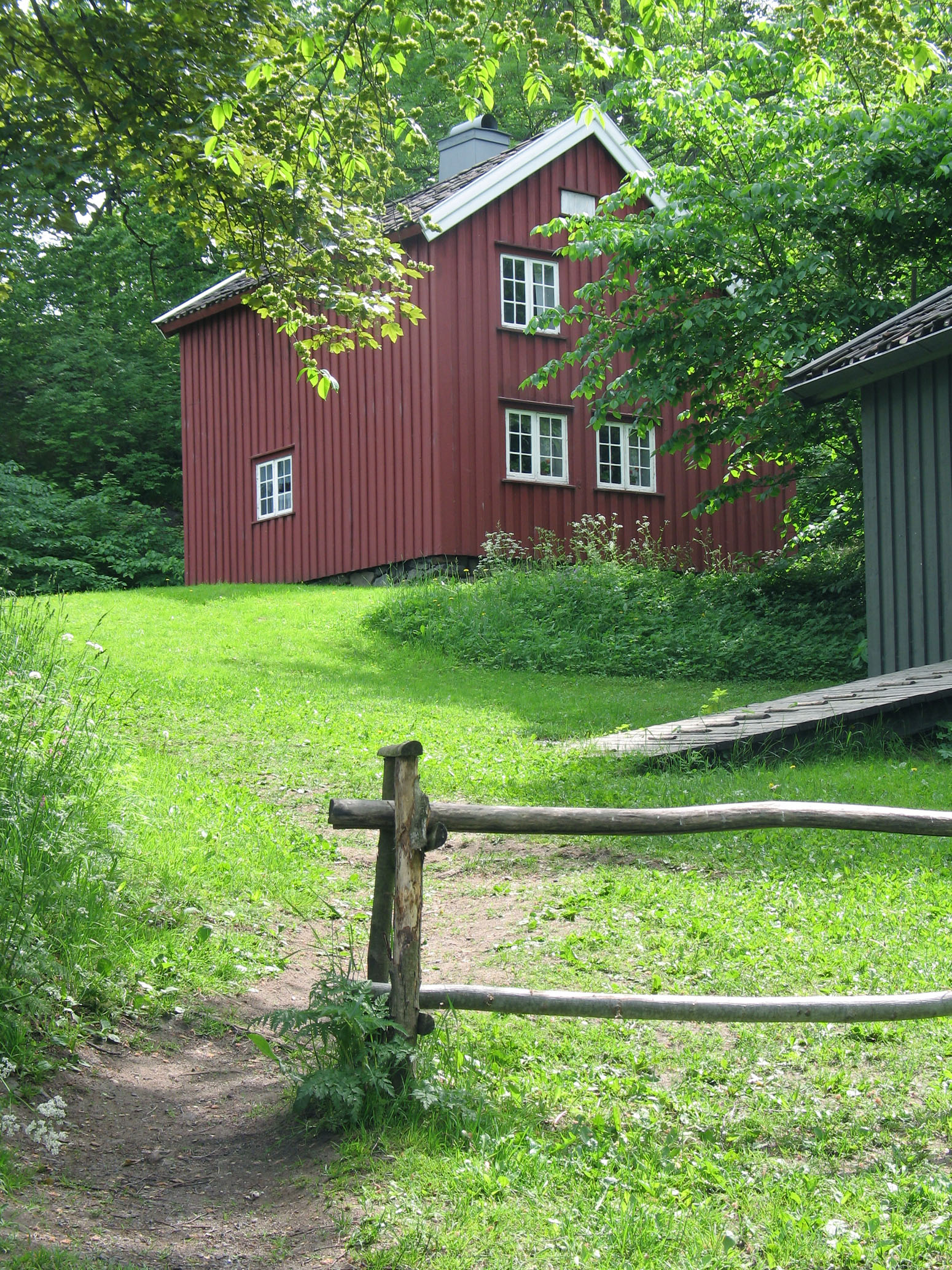 A cottagers house at museum in Arendal. Hesthaghuset from Tvedestrand, at Aust-Agder kulturhistoriske senter